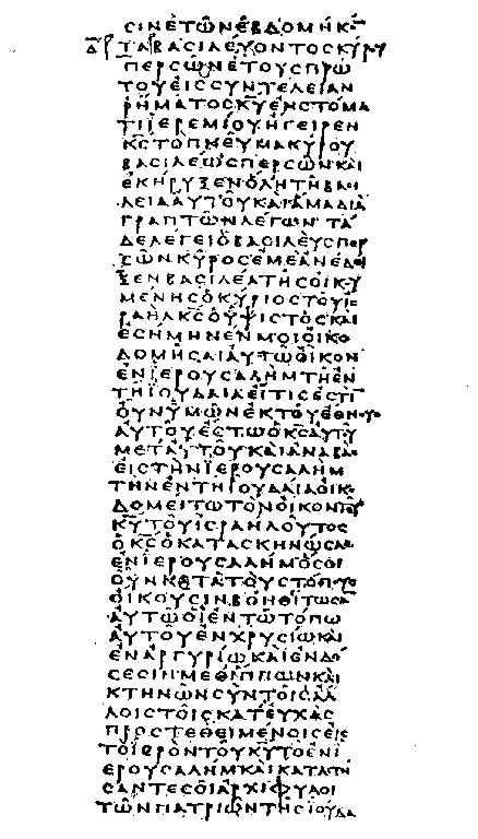 right column of p. 575 of the Grek Uncial MS. Codex Vaticanus, from the Vatican Library, containing 1 Esdras 1:55-2:5.